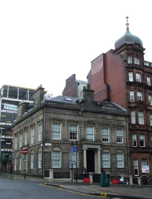 Wellington Street West George Street is to the right.